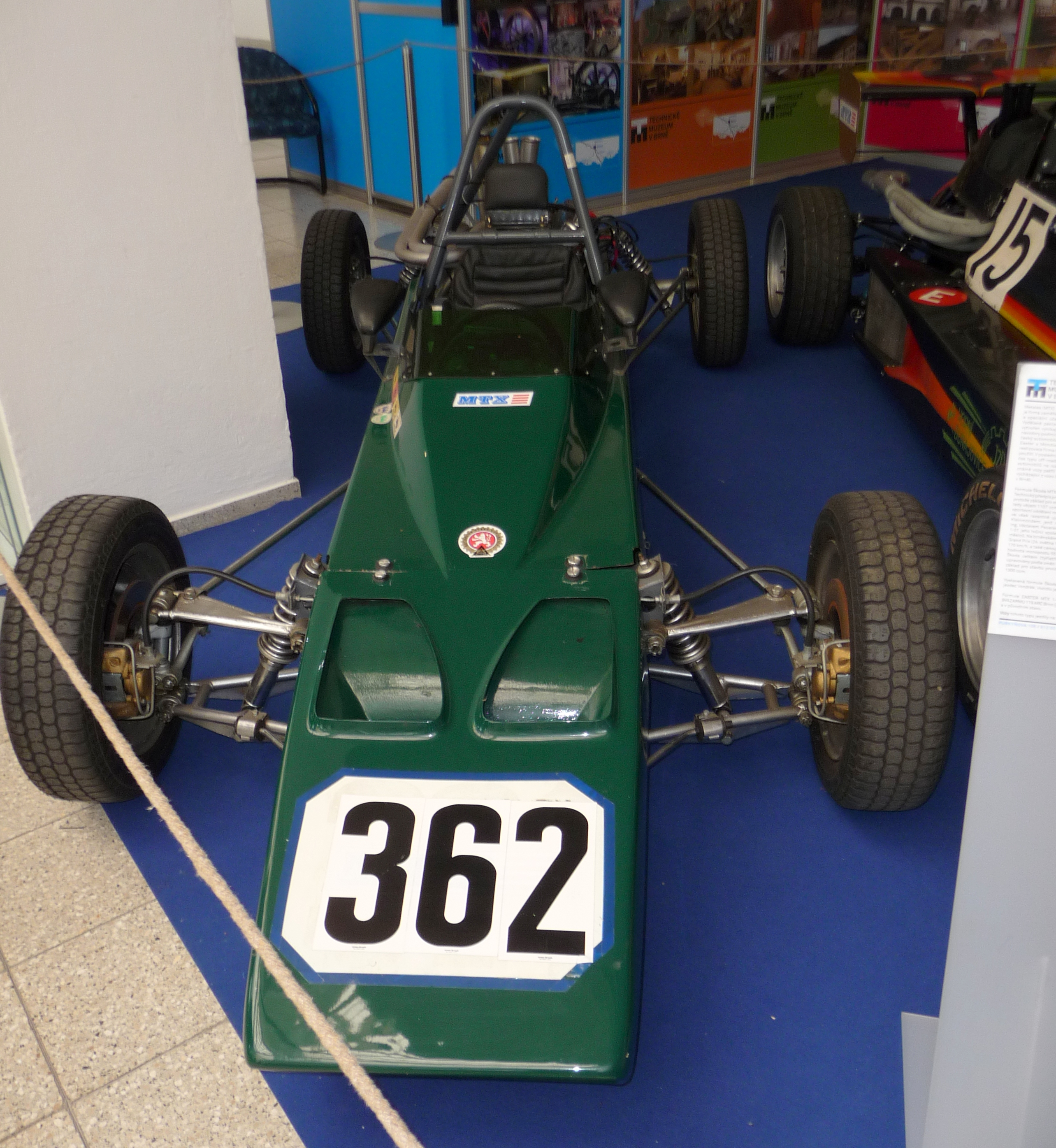 Škoda MTX 1-01, 1971, Classic Show Brno 2011, The Brno Exhibition Grounds -10 -5 -3 -2 ◄ ► +2 +3 +5 +10